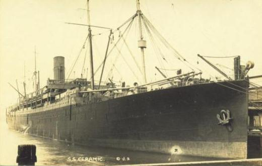 Postcard of the ocean liner Ceramic, built by Harland and Wolff for White Star Line in 1912, sold to Shaw, Savill and Albion Line in 1934 and sunk by a U-boat in 1942